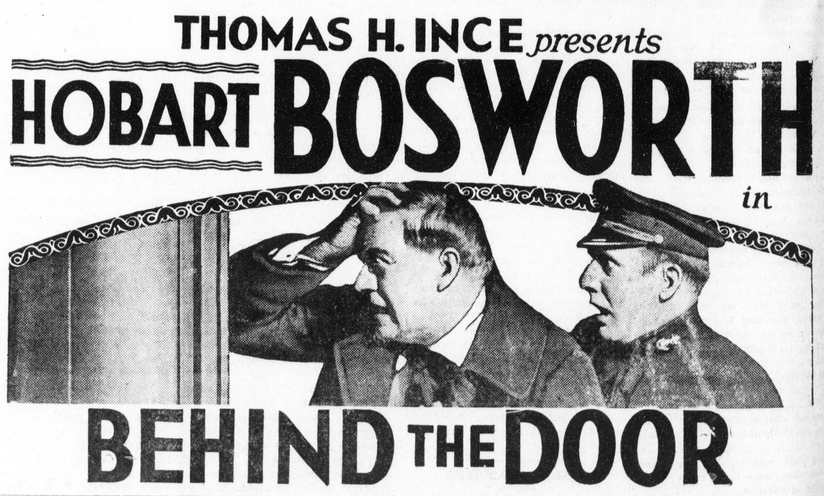 Behind the Door is a surviving 1919 silent film produced by Thomas Ince, directed by Irvin Willat and distributed by Paramount Pictures. This is a newspaper advert.